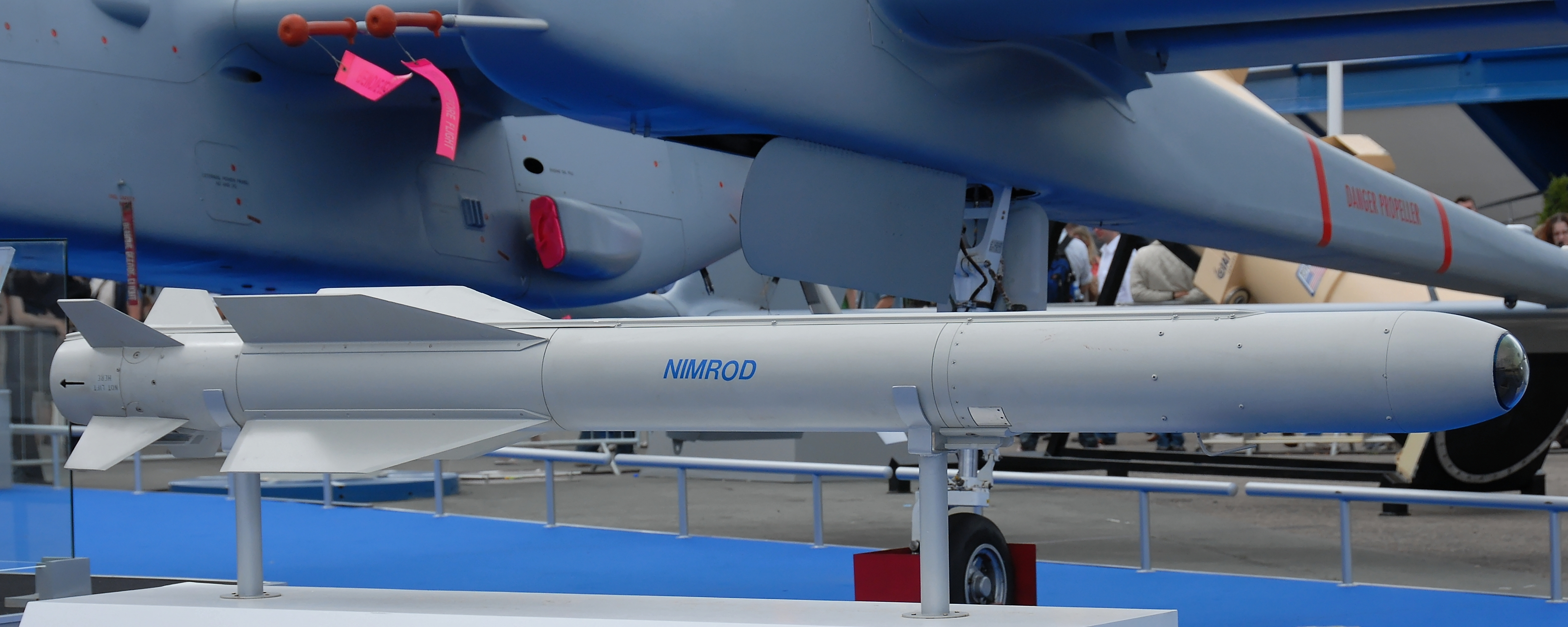 An IAI Nimrod anti-tank laser homing missile at the 2007 International Paris Air Show at the Le Bourget airport.